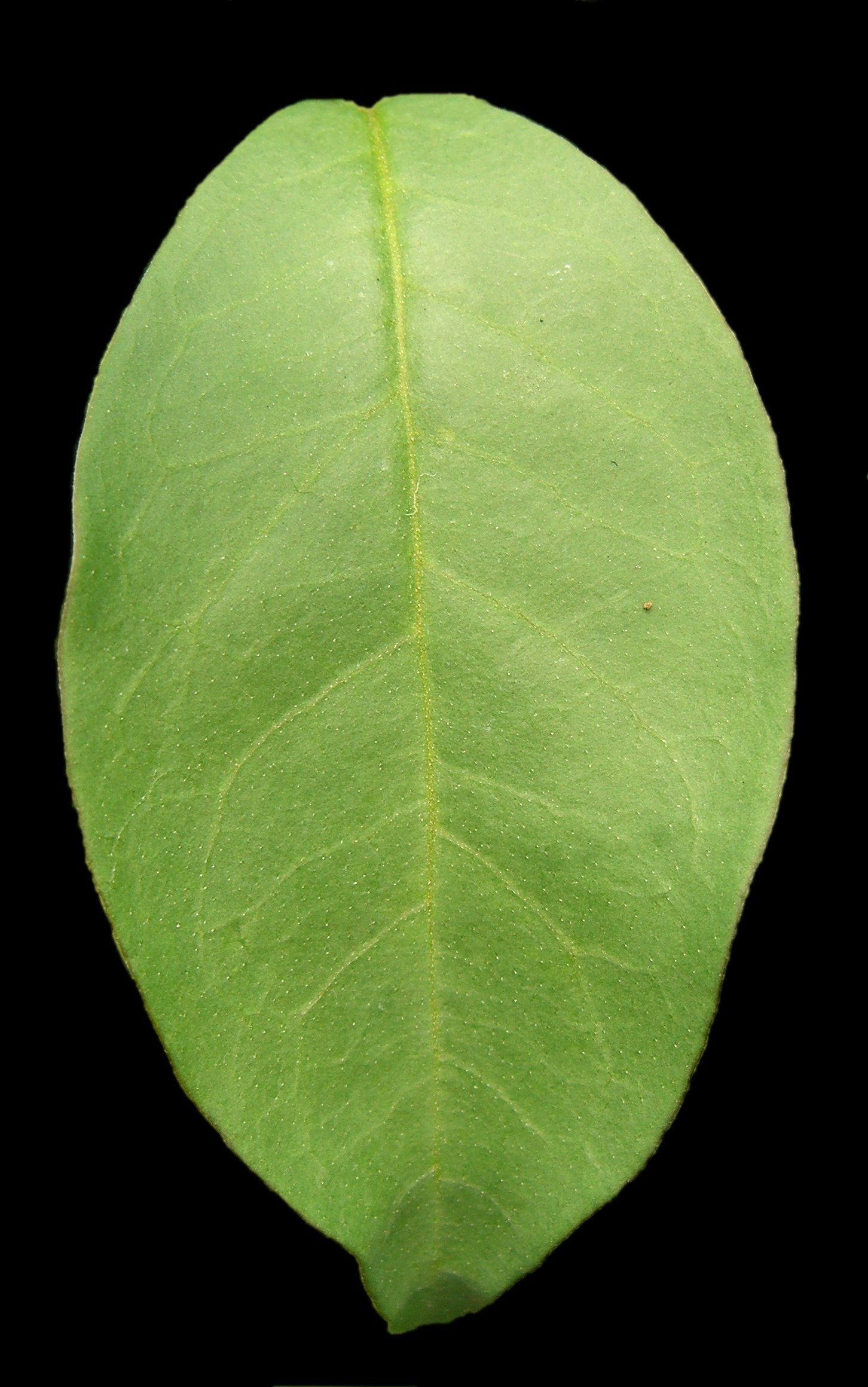 Description: Leaf of the Brunfelsia pauciflora with black background